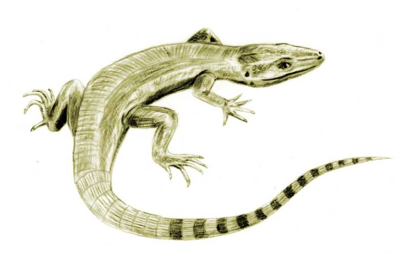 Archaeothyris, pencil drawing.